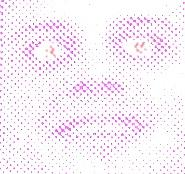 Stylized variation of spite vocalists face. Non-copyrighted for public use.